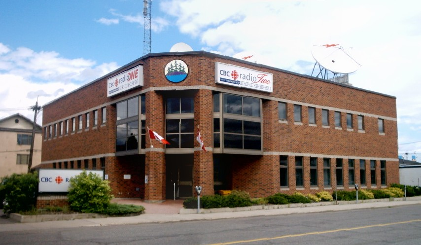 The CBC Studios for Northwestern Ontario in Thunder Bay, Ontario